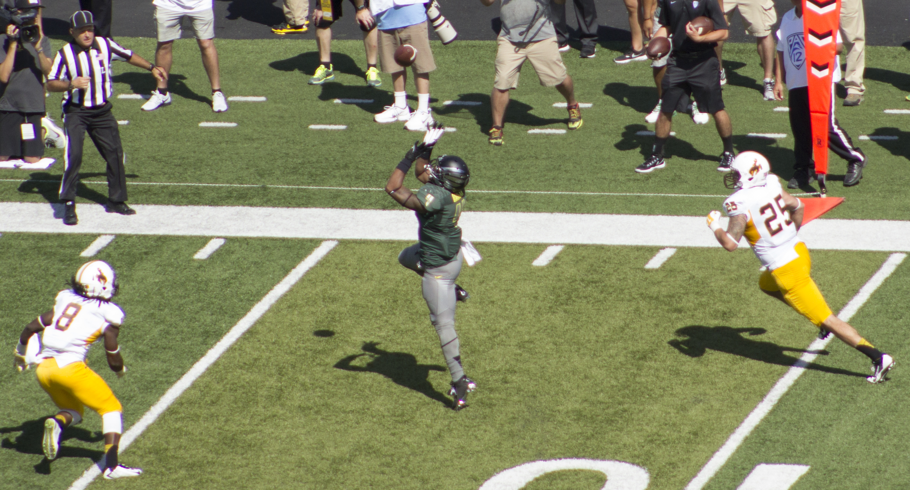 Oregon defensive back Erick Dargan intercepts a pass while playing against the Wyoming Cowboys in the 2014 college football season.